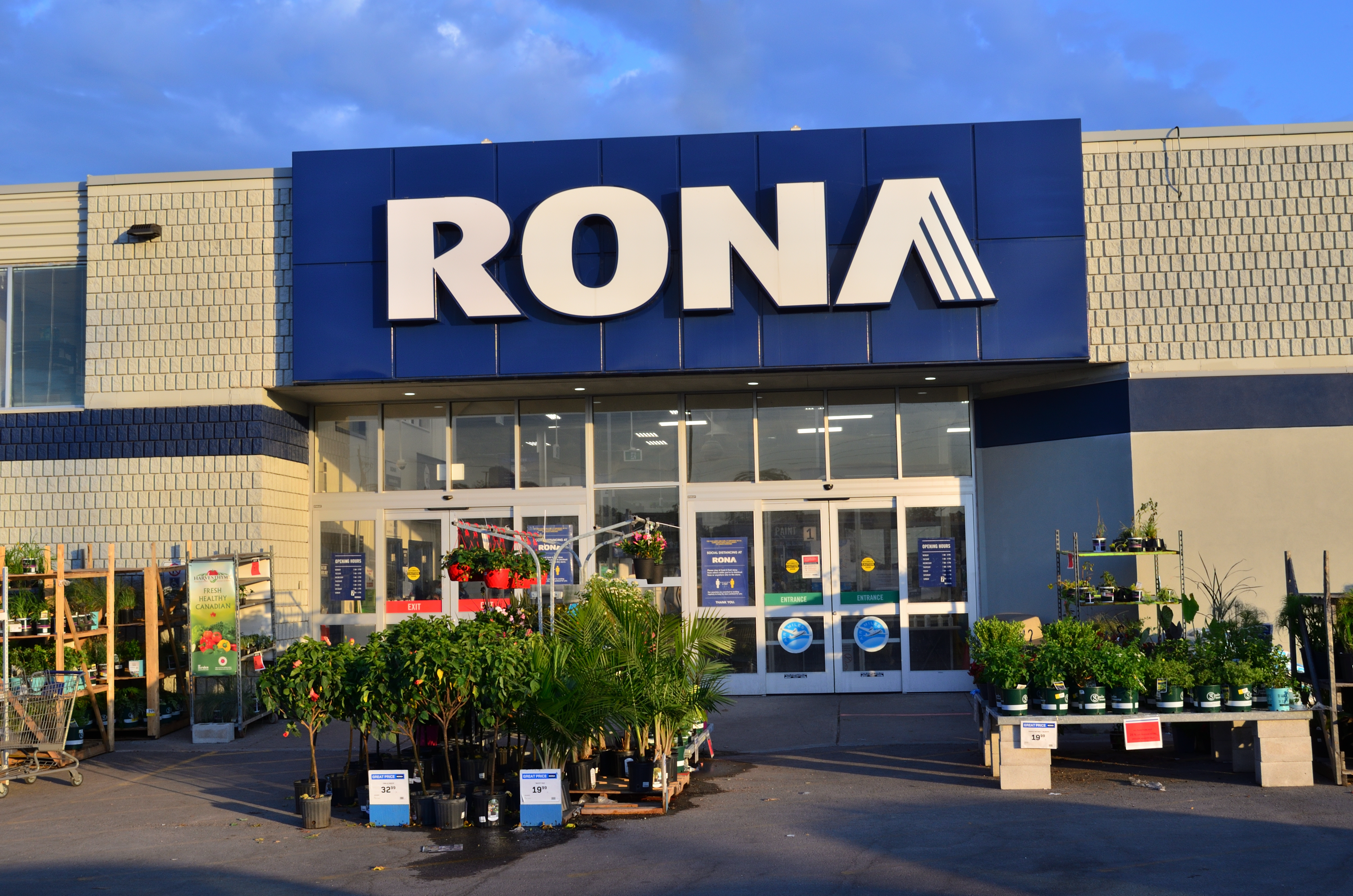 RONA Markham - Address: 8651 McCowan Rd, Markham, ON L3P 4H1